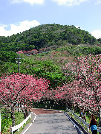 Yaedake